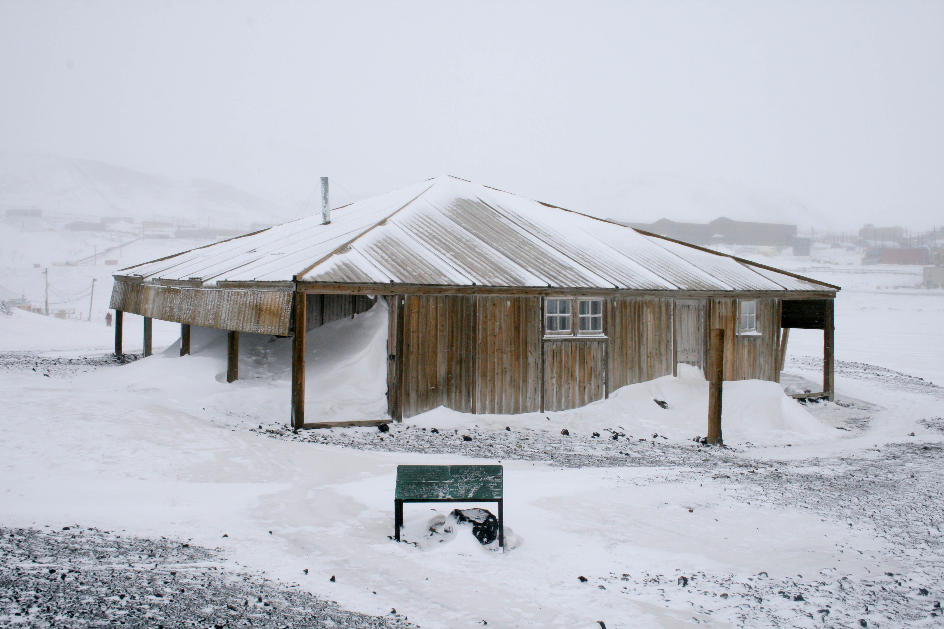 Discovery Hut, erected in 1901 by Robert Falcon Scott's 1901-1904 Discovery expedition. Located on Ross Island, Antarctica near the United States' McMurdo Station